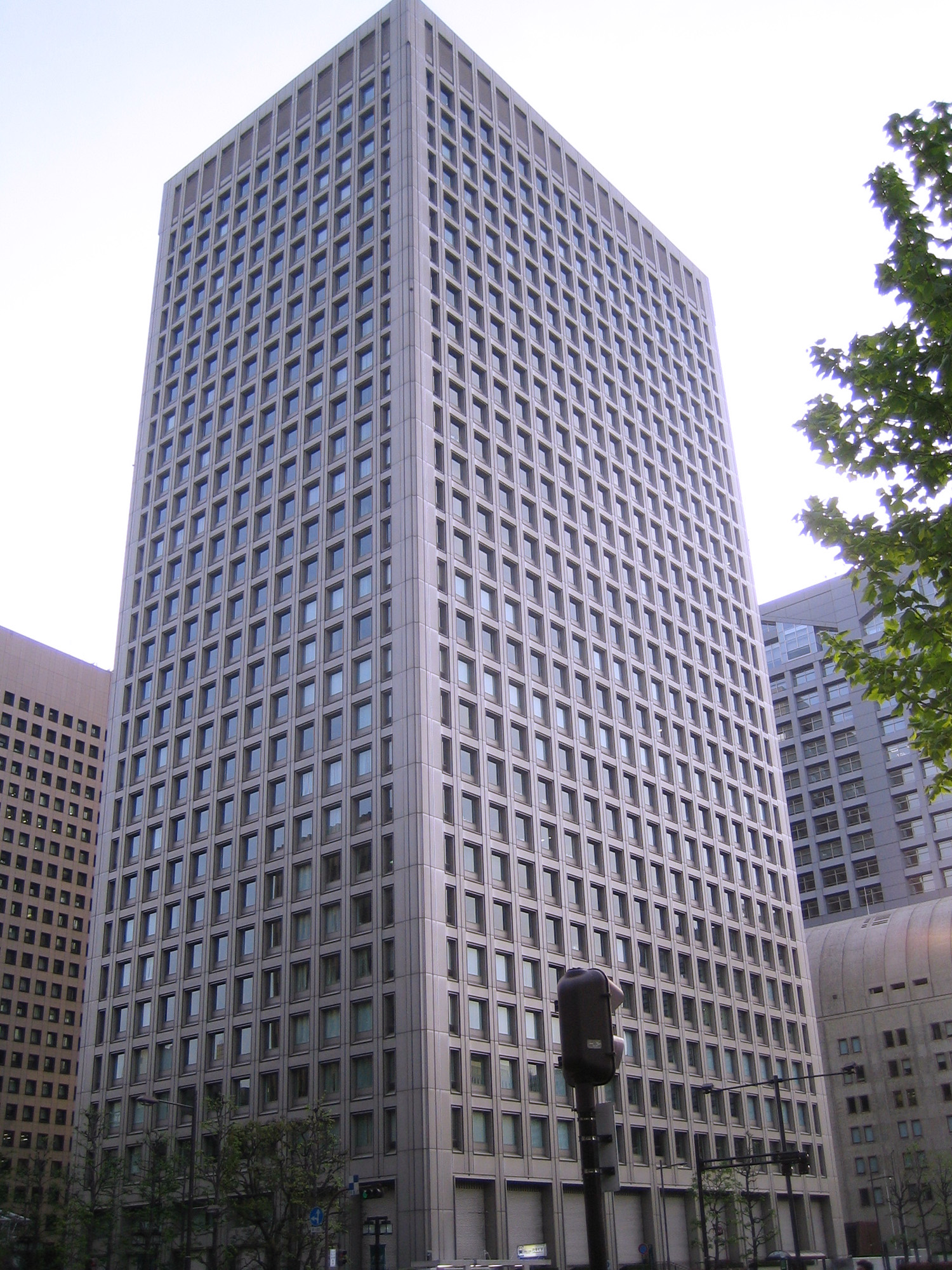 Fukoku Seimei Building, Fukoku Mutual Life Insurance (富国生命保険) headquarters, in Chiyoda, Tokyo, Japan - Former Japan Economic Foundation (JEF) headquarters